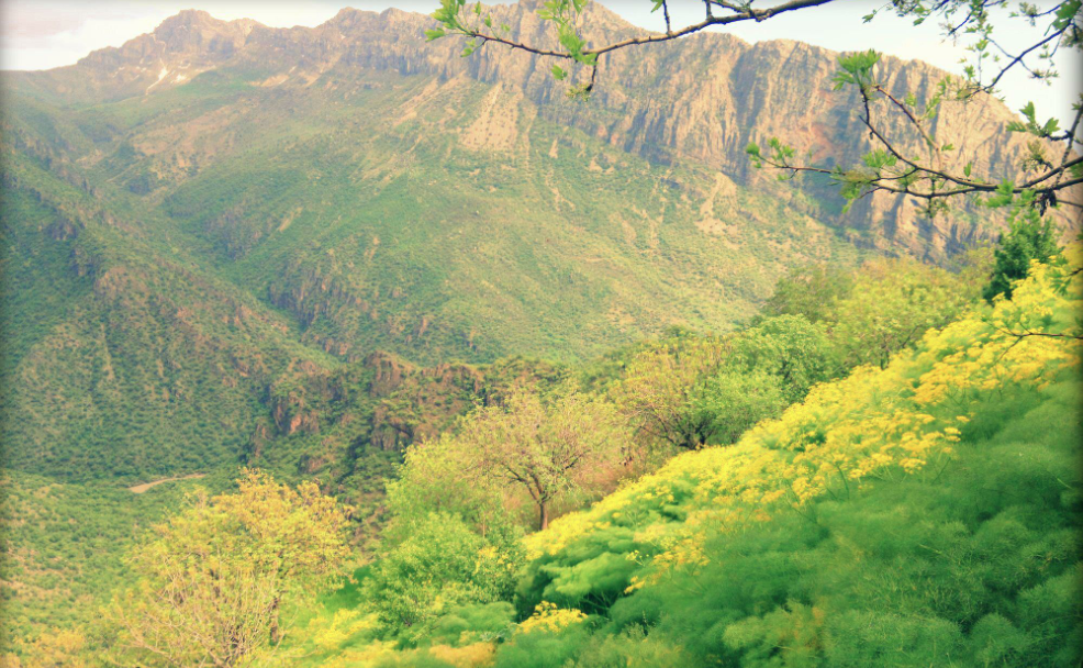 Roshava, Deraluk, Duhok, Iraqi Kurdistan Kurdî: Roşava yan Reşava gundek e ku li Kurdistana başûr e, ser bi nehiya Dêrelûkê ve ye, li parêzgeha Duhokê.